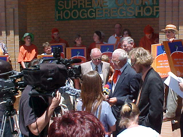 Carel Boshoff (center) and Carel Boshoff IV (right) of the Orania Beweging in front of the Kimberley High Court to campaign for the town's municipal status